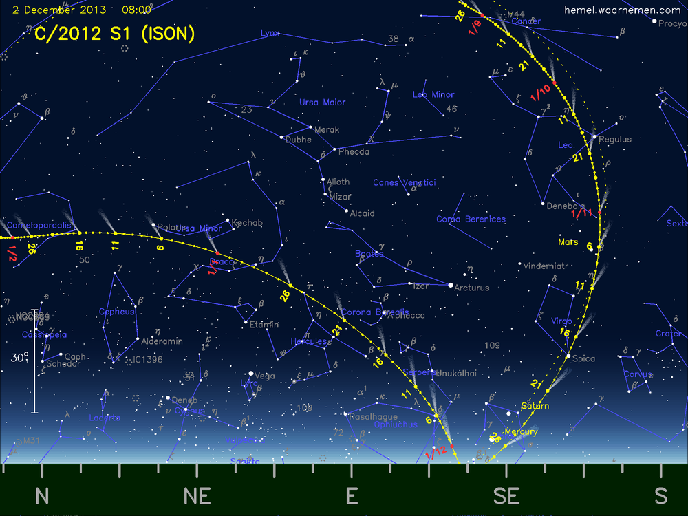 The comet C/2012 S1 (ISON) in the (roughly eastern) morning sky for an observer on 52° N latitude, between September 2013 and February 2014. The position of the comet with respect to the background stars is correct at all times. The horizon and twilight are (roughly) valid for 2 Dec 2013, 8:00 local time and the positions of the planets are correct for 3 Dec 2013, 8:00 CET (7:00 UT). The comet tails are schematic and give a rough indication of the orientation of the actual tail, but not of its true length or appearance. The yellow labels show the day of month for which a comet is drawn, red ones the first day of a month.